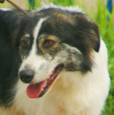 Atlas Mountain Dog's head